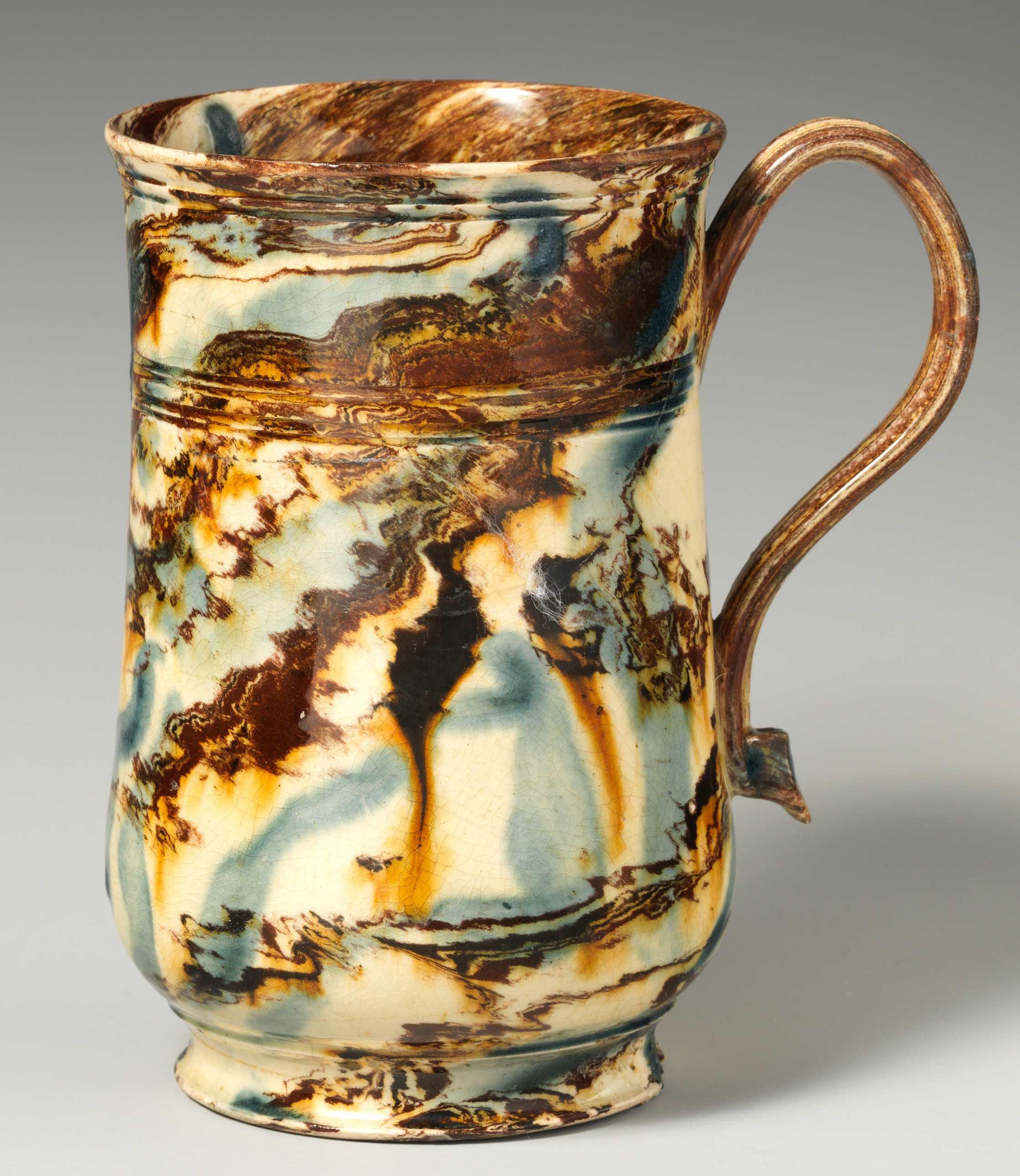 British, Staffordshire; Mug; Ceramics-Pottery